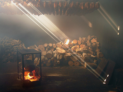 Ahumado de Chosco